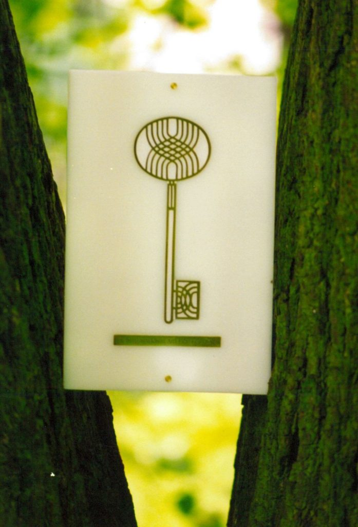 Artfilm1993